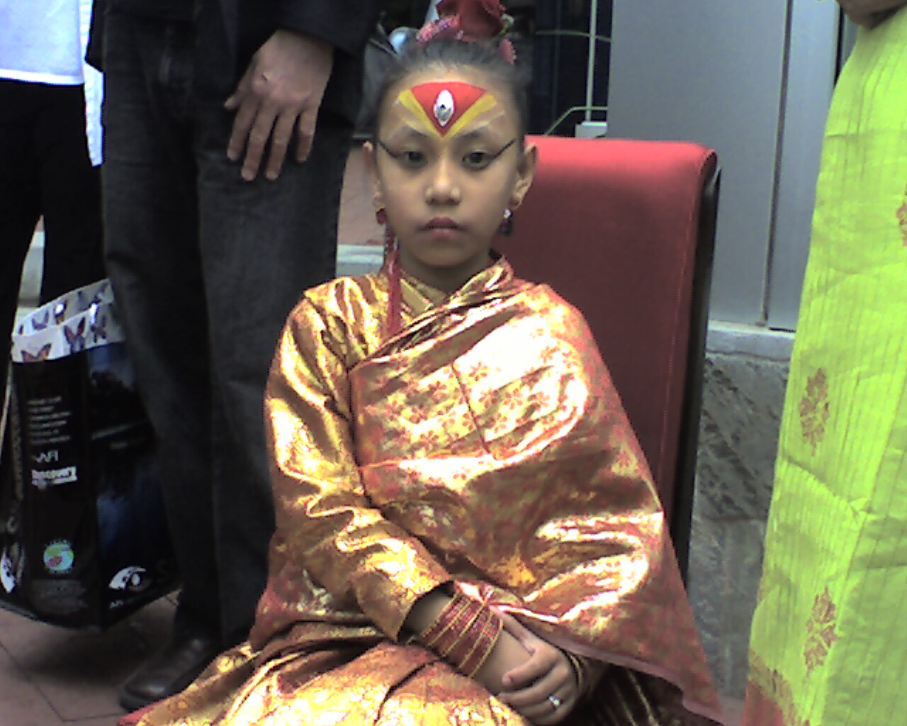 Sajani Shakya, currently the Kumari of Bhaktapur, Nepal. Kumari is the living goddess Durga in Nepal. Photographed by Andy Carvin during her visit to the United States in June 2007.